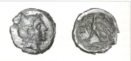 Coin of the last ancient Macedonian king Perseus